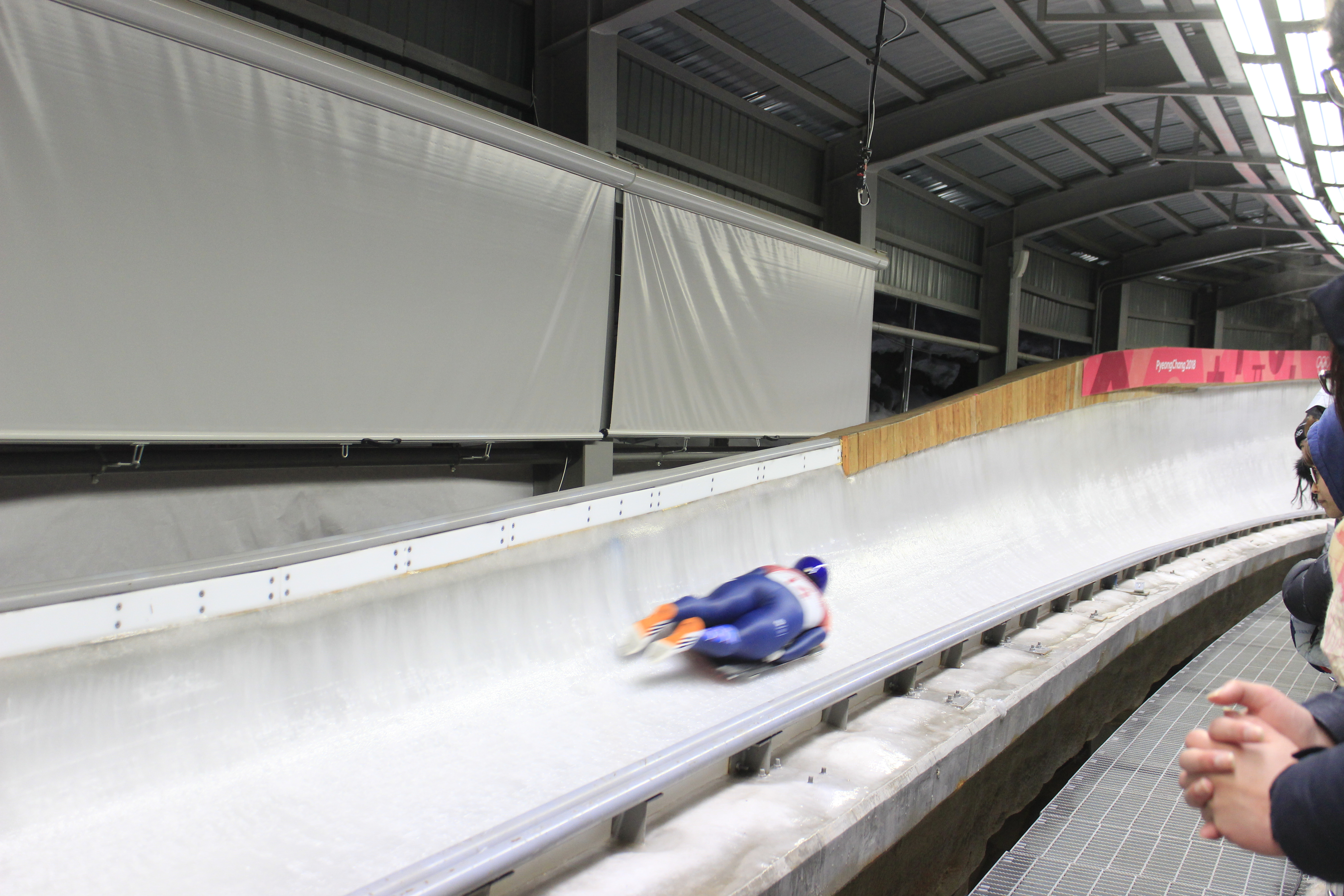 2018 Olympics Sliding Center, 2/17